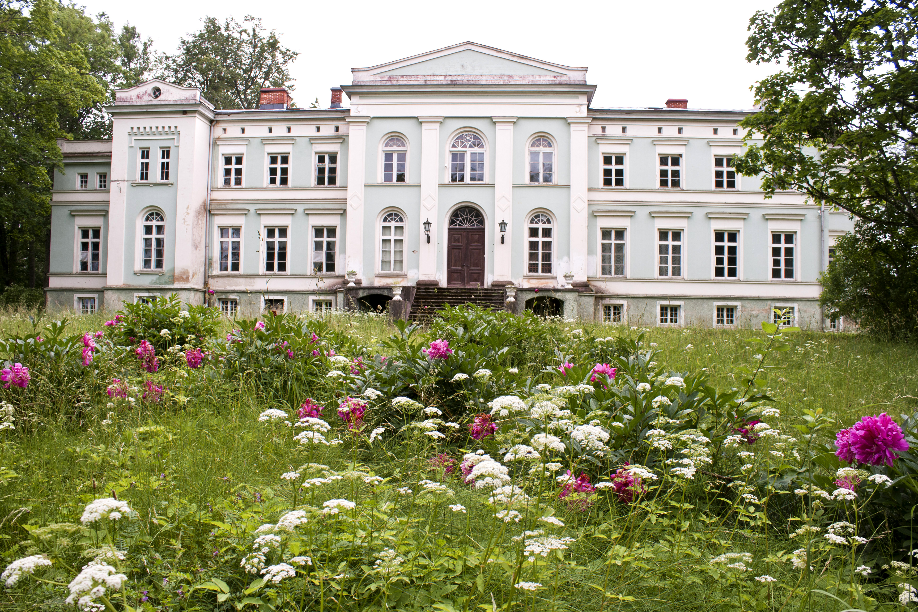 Nogale ManorLatviešu: Nogales muižas pils